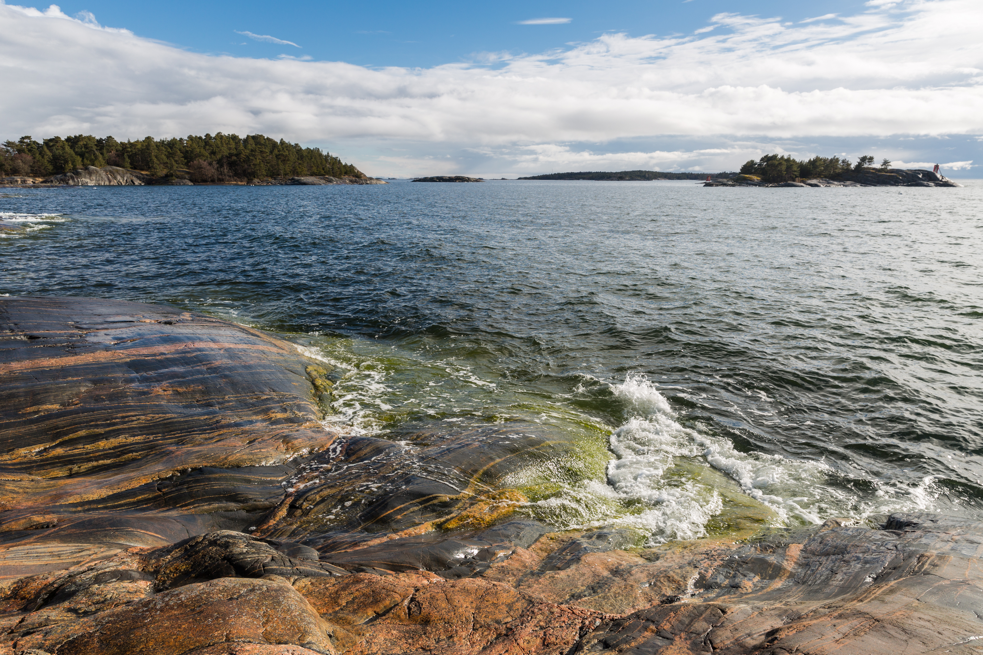 Porkkala, Finland, metamorphic rocks